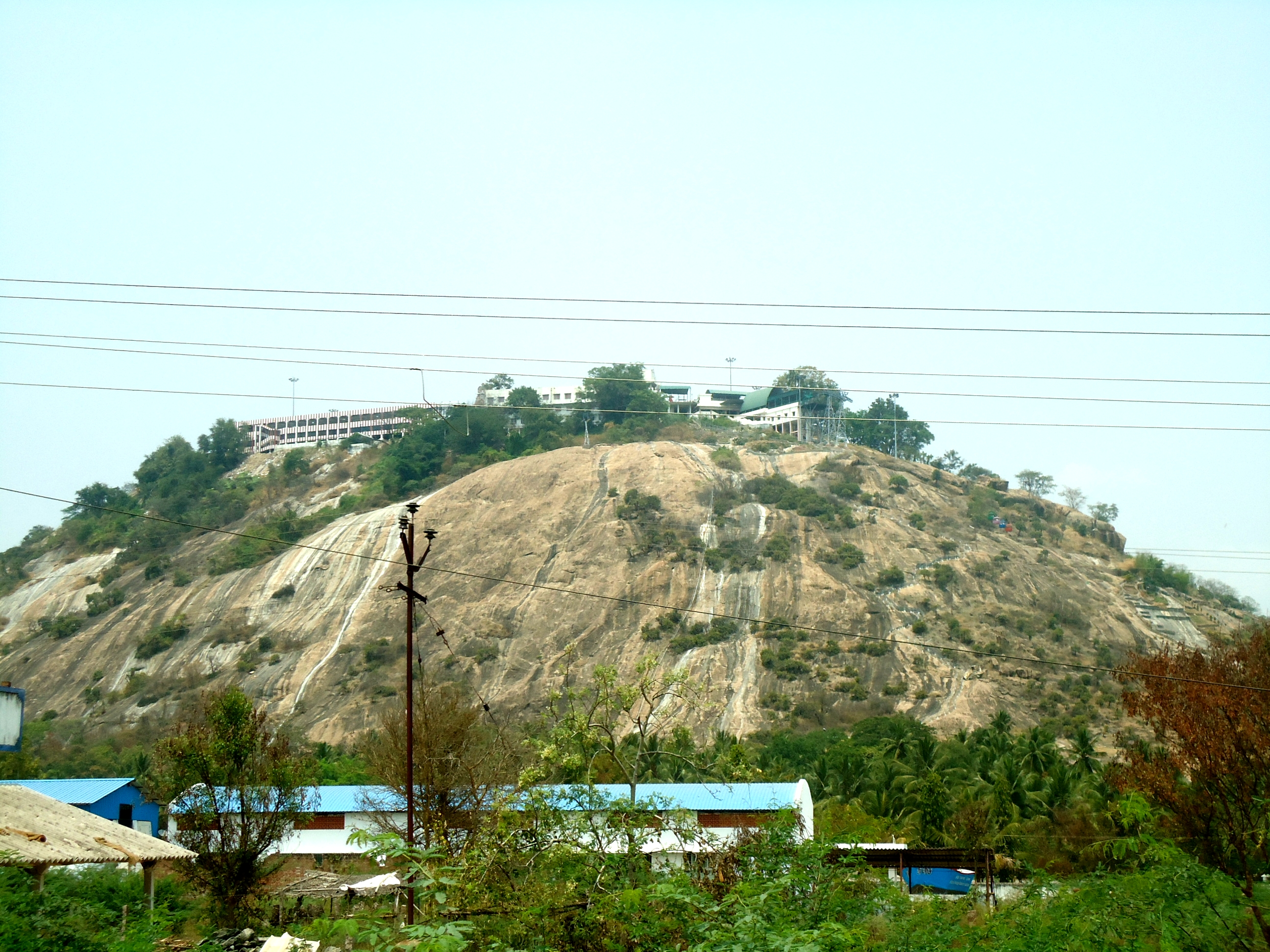 Palani Hills View from base